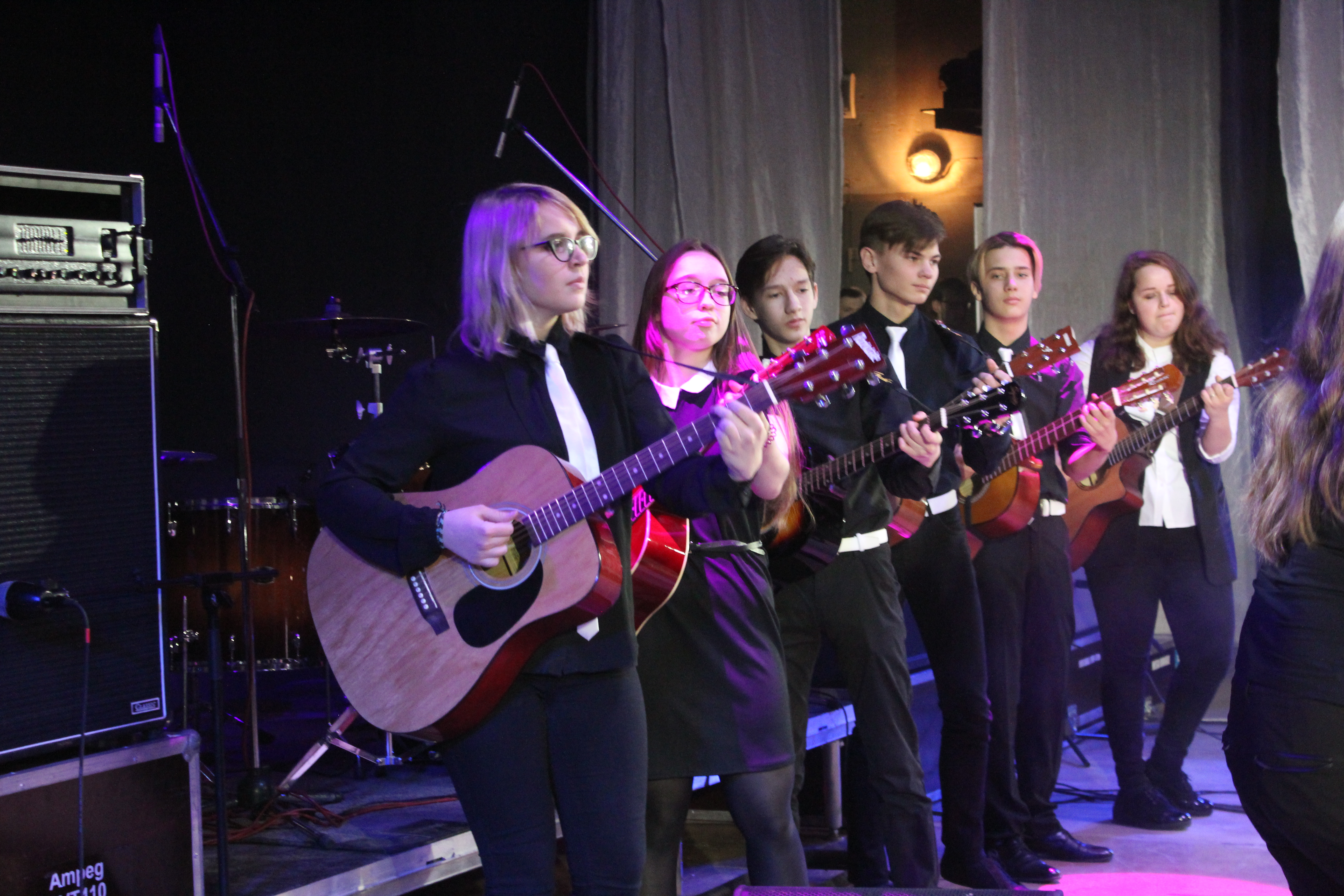 Участники фестиваля из Калуги, 2018.